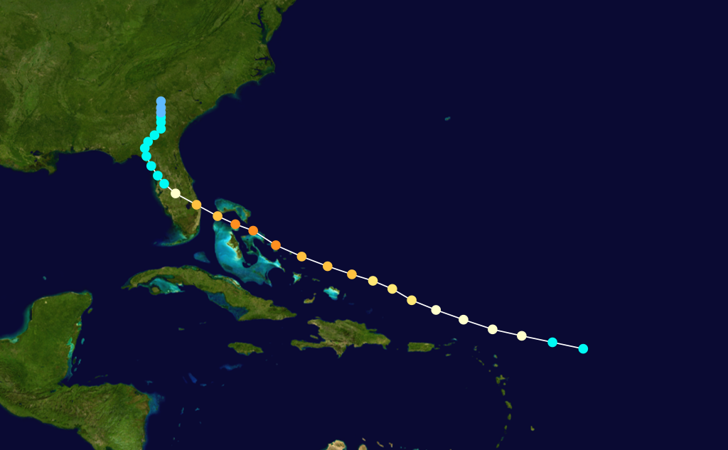 1933 Atlantic hurricane 12 track. Uses the color scheme from the Saffir-Simpson Hurricane Scale.